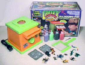 This is a photograph of a ToyMax circa Creepy Crawlers toy.